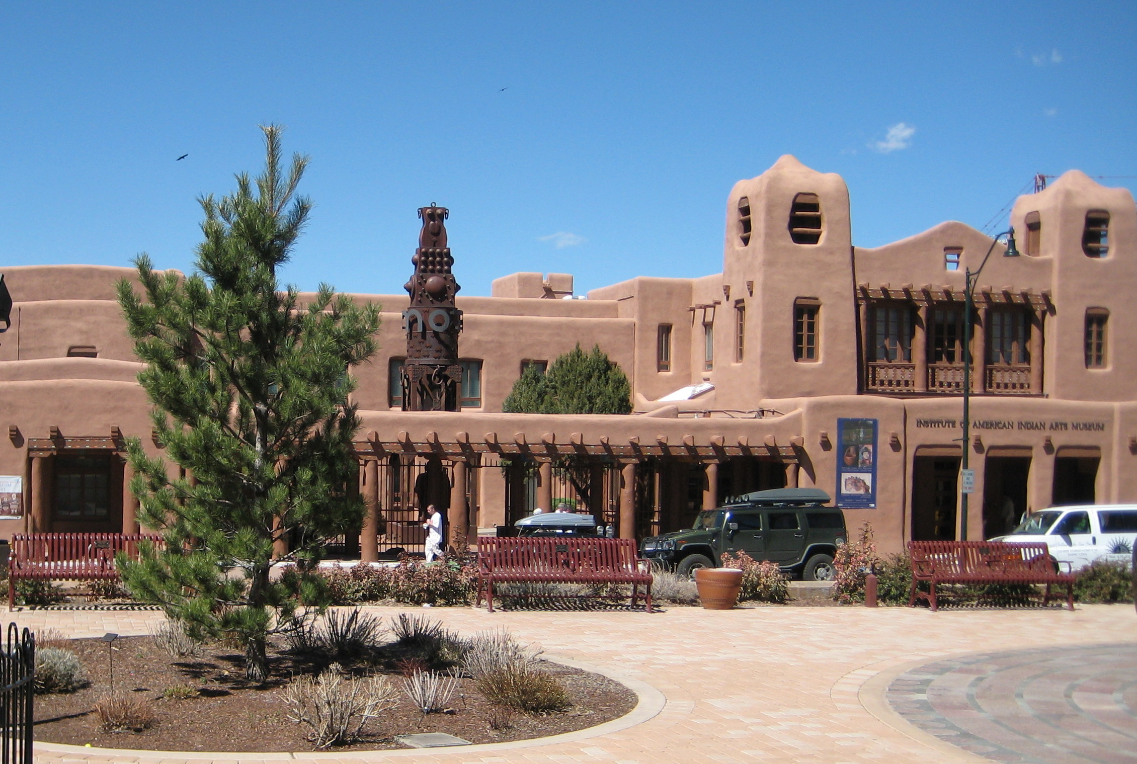 Institute Of American Indian Arts Museum, Santa Fe NM